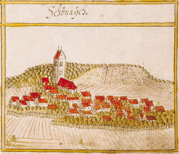 View of Schönaich from the forest register books created by Andreas Kieser